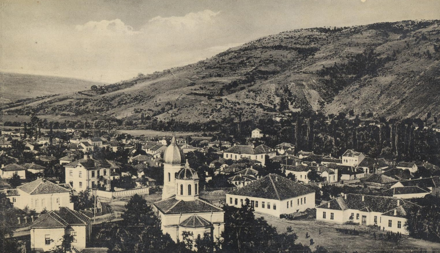 Panorama of Dimitrovgrad 1937